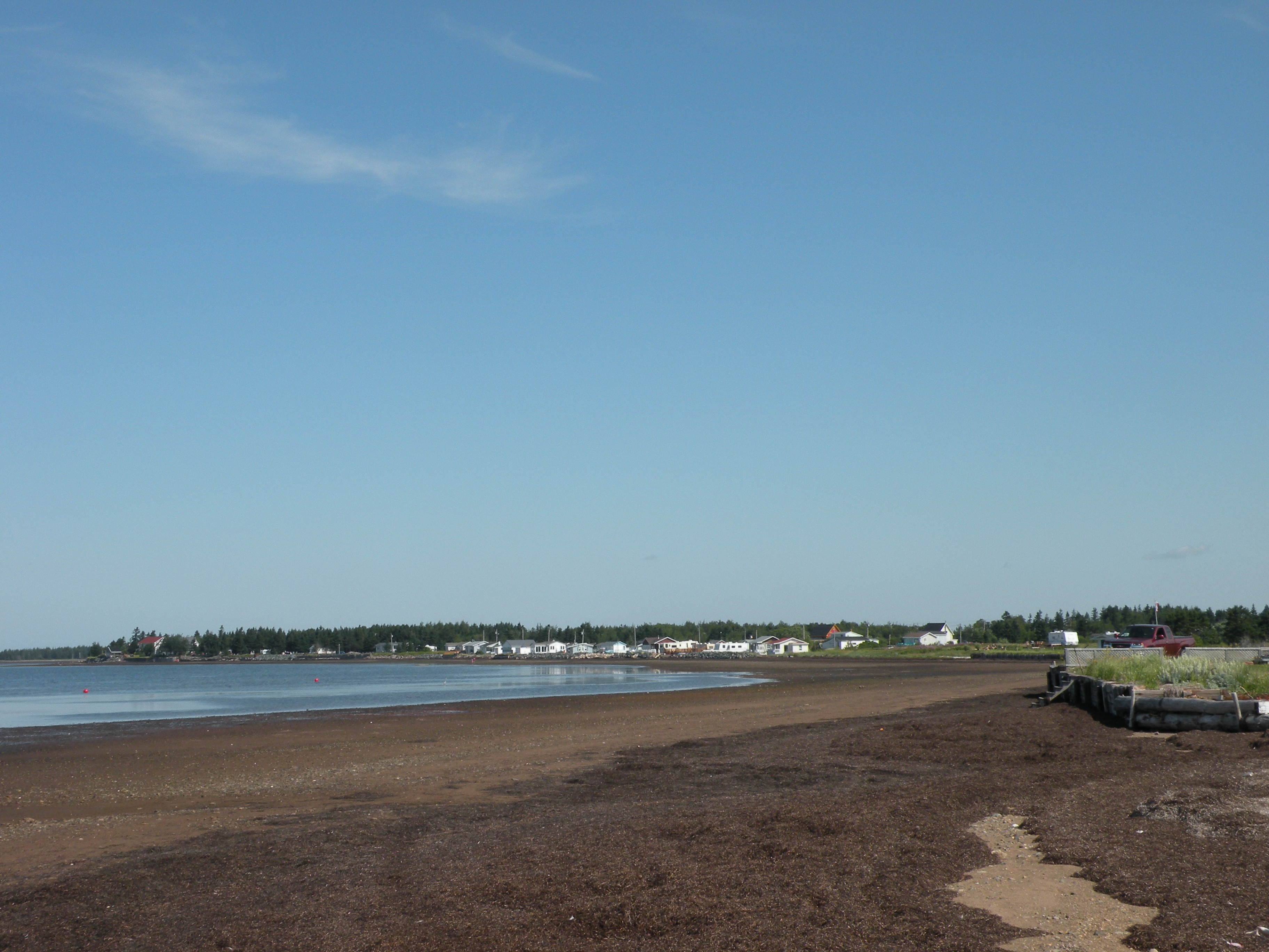 Village-Chiasson, New Brunswick, Canada, as seen from the beach.